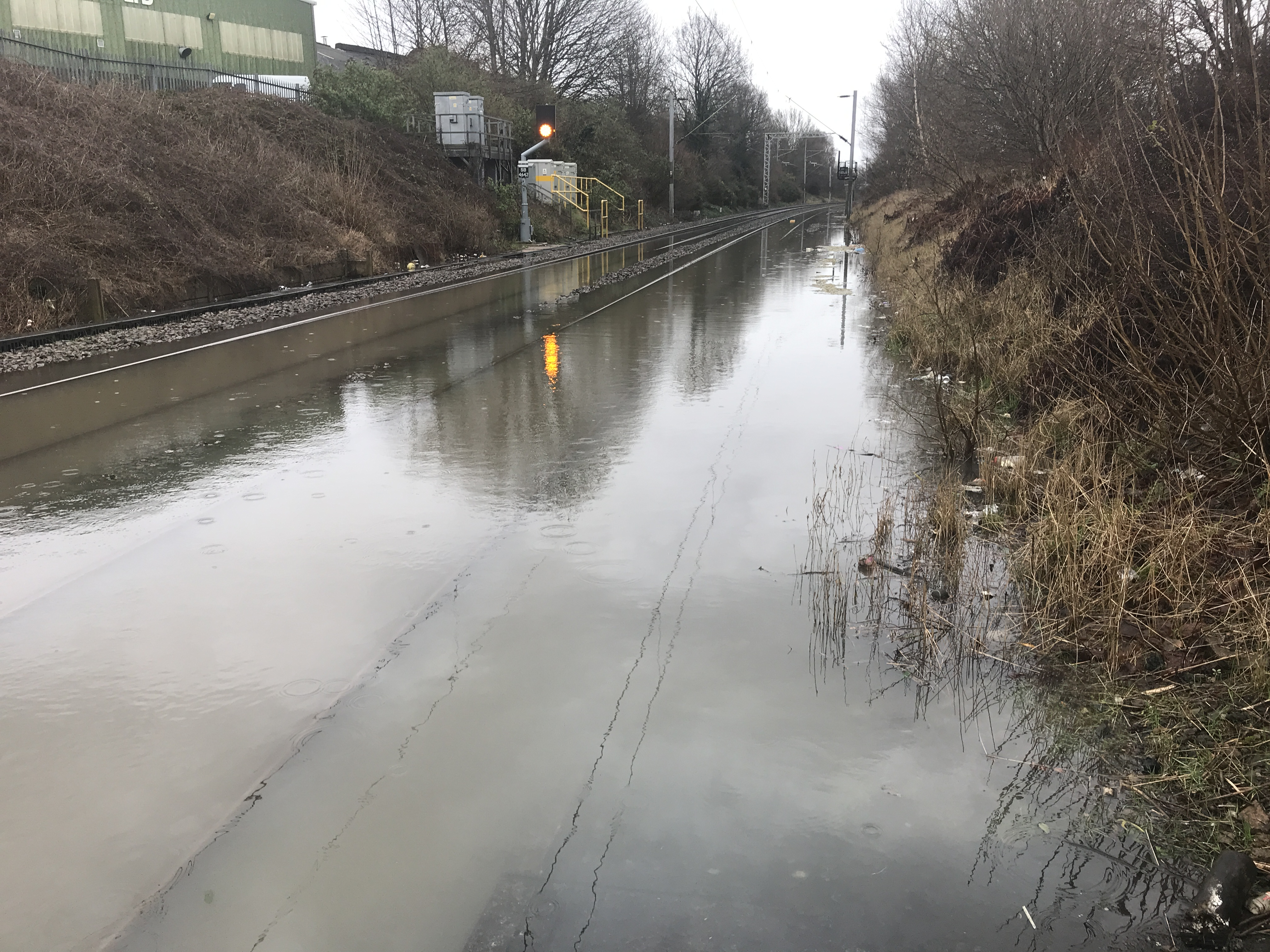 Hamstead Train Station, Birmingham - Storm Dennis was certainly a menace stopping the trains today.